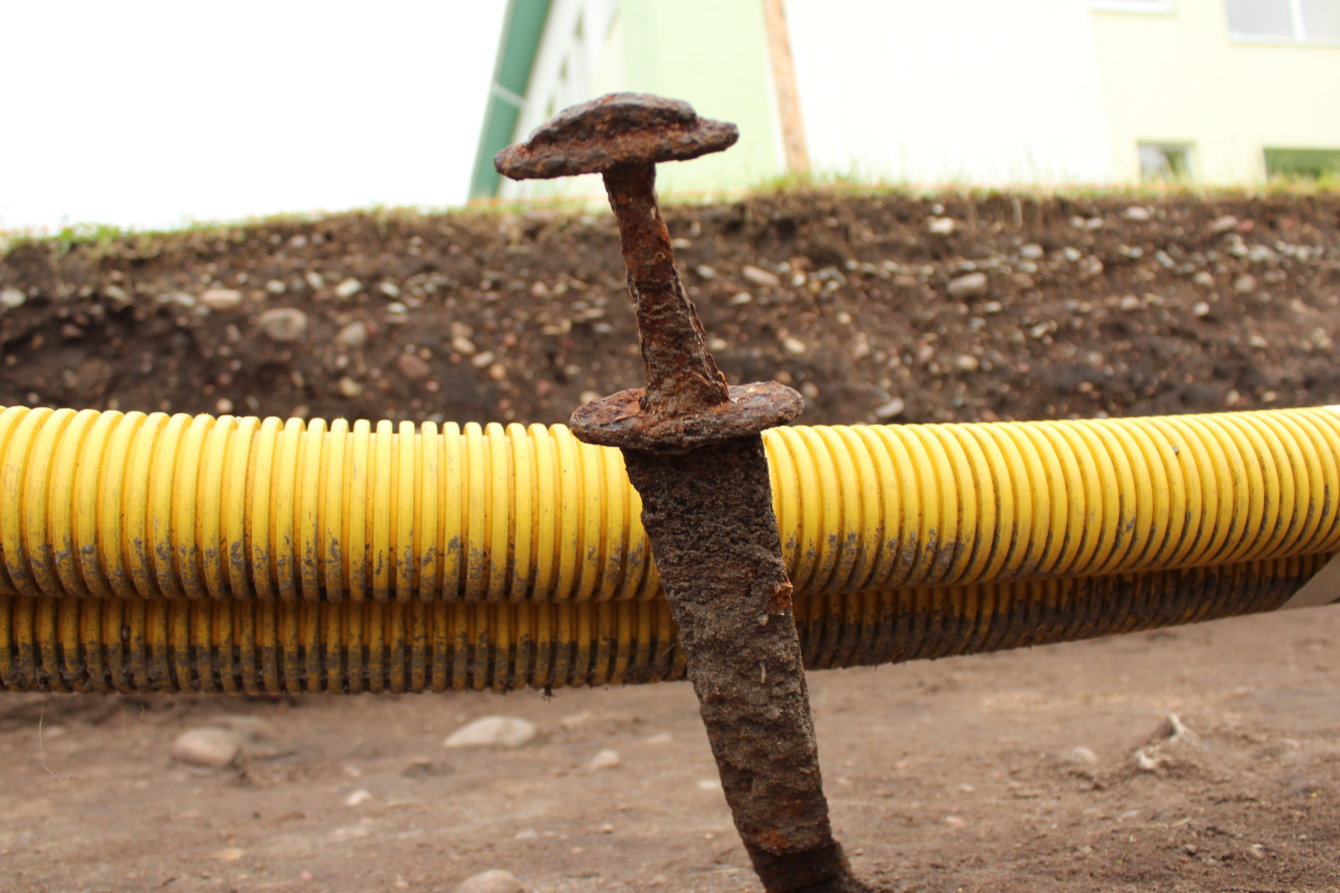 A sword from the 8th century ship burial in Salme on the island of Saaremaa. The sword had been moved from its original location with construction works.